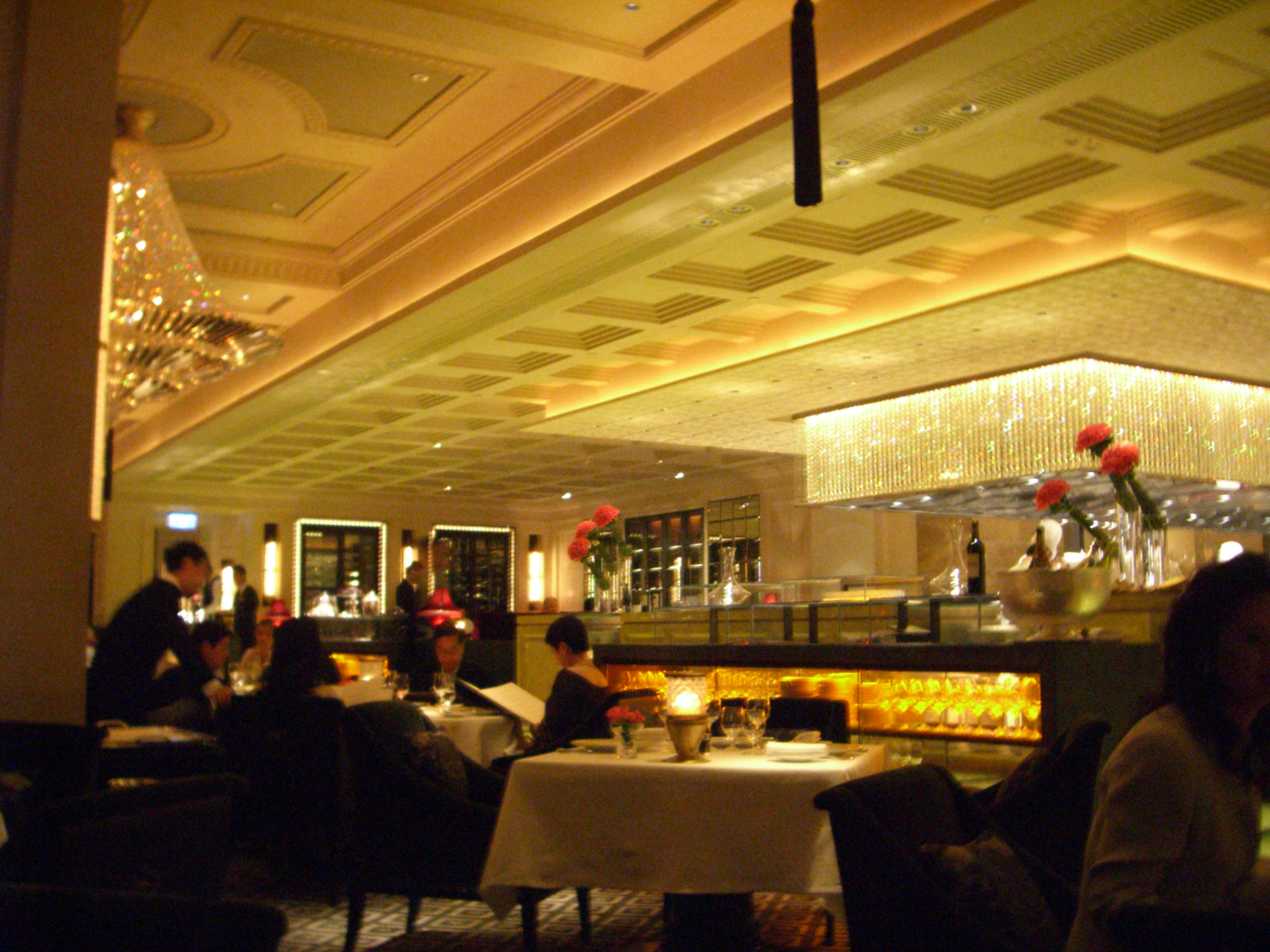 A picture of Caprice restaurant taken by me.